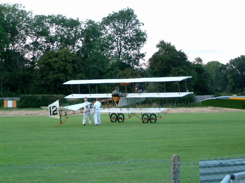 Avro Triplane at the Shuttleworth Collection in Bedfordshire England